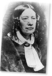 Catharine Beecher (September 6, 1800 – May 12, 1878), American educator